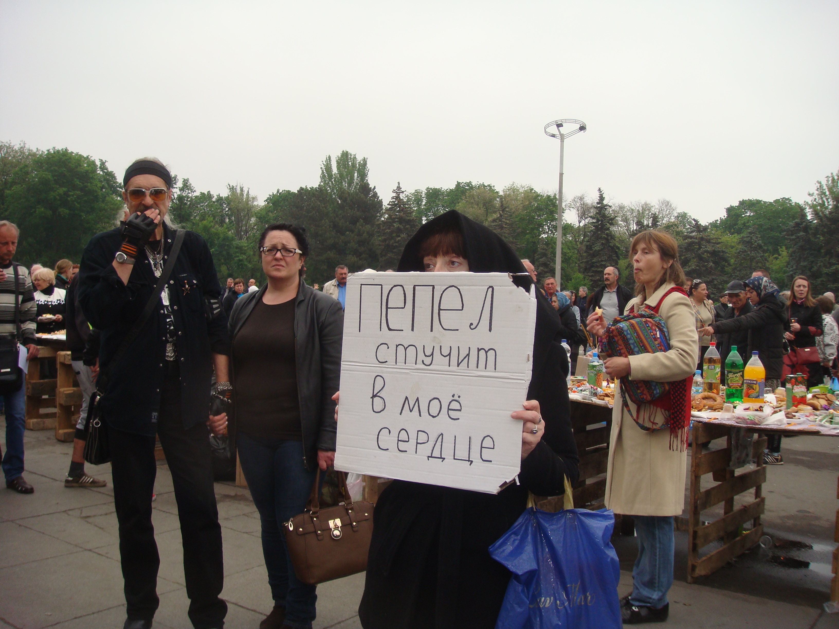 Odessa. Kulikovo Pole square. Wake ceremony on the 9th day of death of victims of Odessa clashes (May the 2nd 2014).